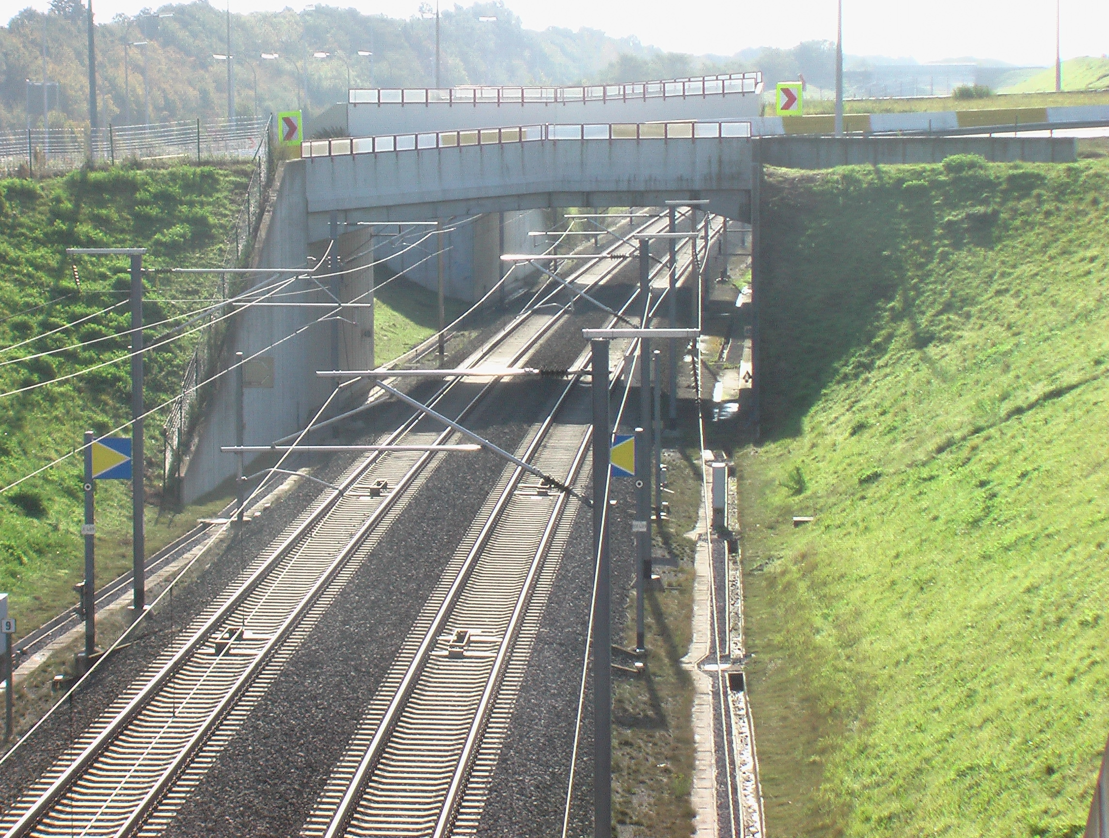 HSL 2 high speed train line near Hoegaarden, Belgium